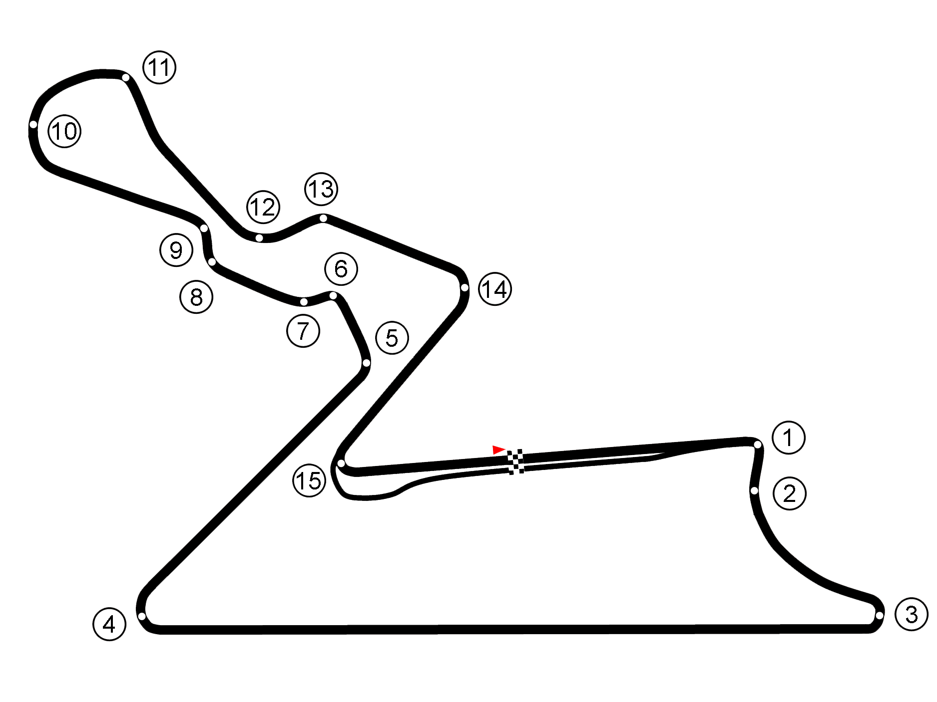 Trackmap of the new F1 circuit in India